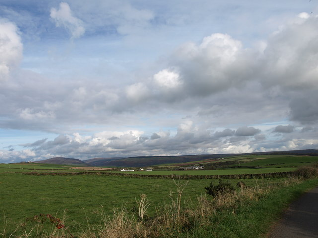 Farmland, The Rhins Looking towards Mahaar farm.